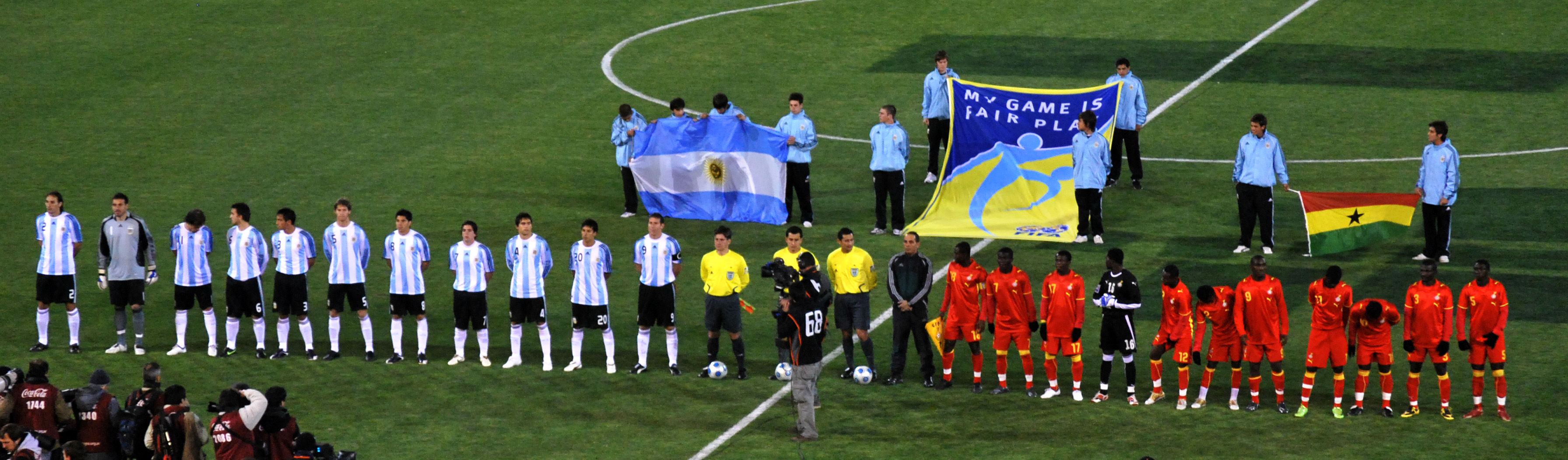 Photo taken by Damian Zanini with a Nikon D6 camera.The Ghana nation football team (in red) against the Argentina national football team (in blue), at the Estadio Mario Alberto Kempes, in Córdoba, Argentina.